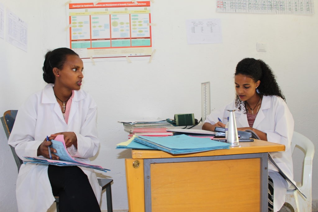 Nurses at local hospital in Ethiopia preparing patient record for medical treatment. This is an image of "African people at work" from Ethiopia